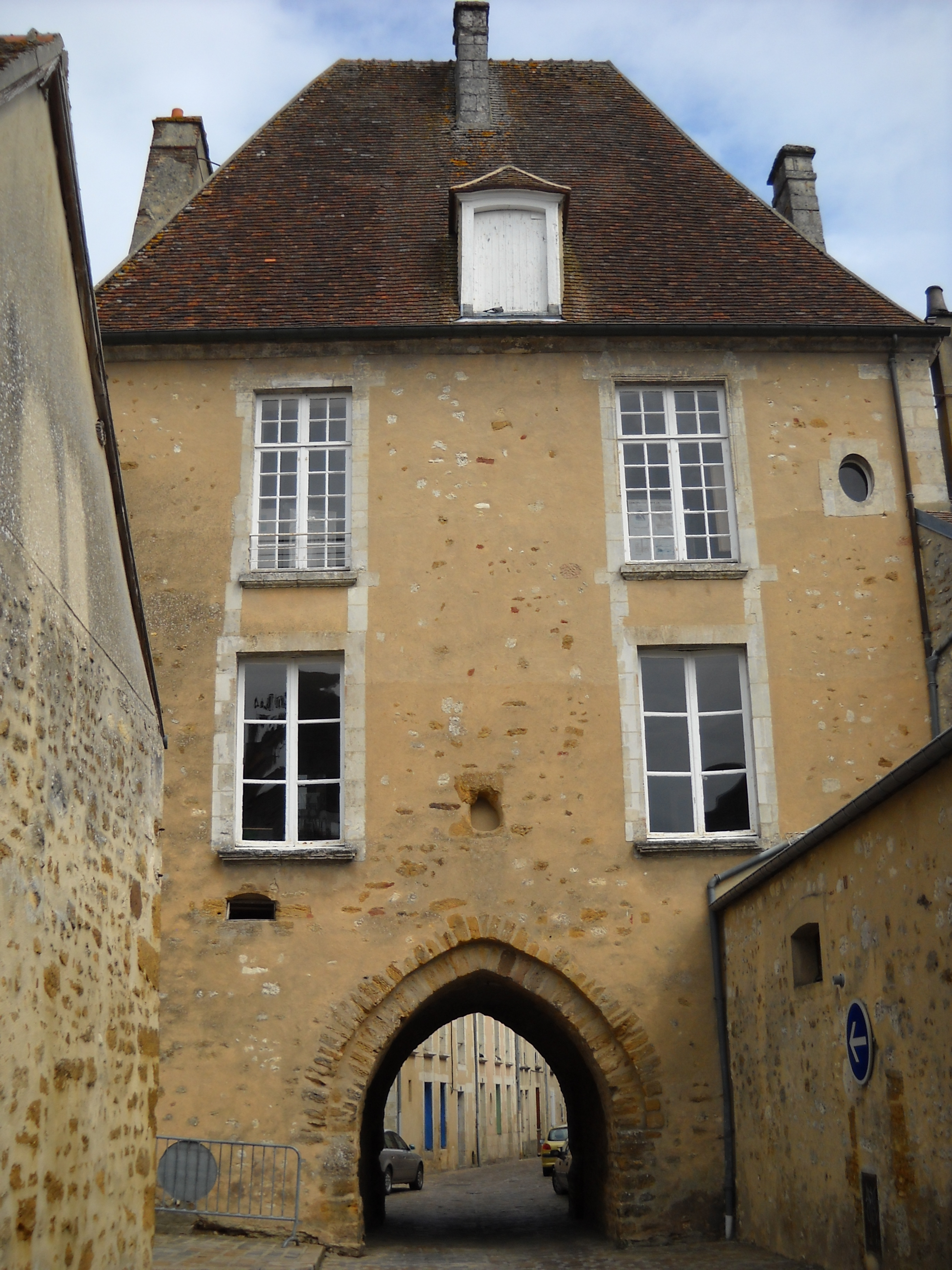 Saint-Denis Gate (12-16th c.), in Mortagne-au-Perche, Orne, France.